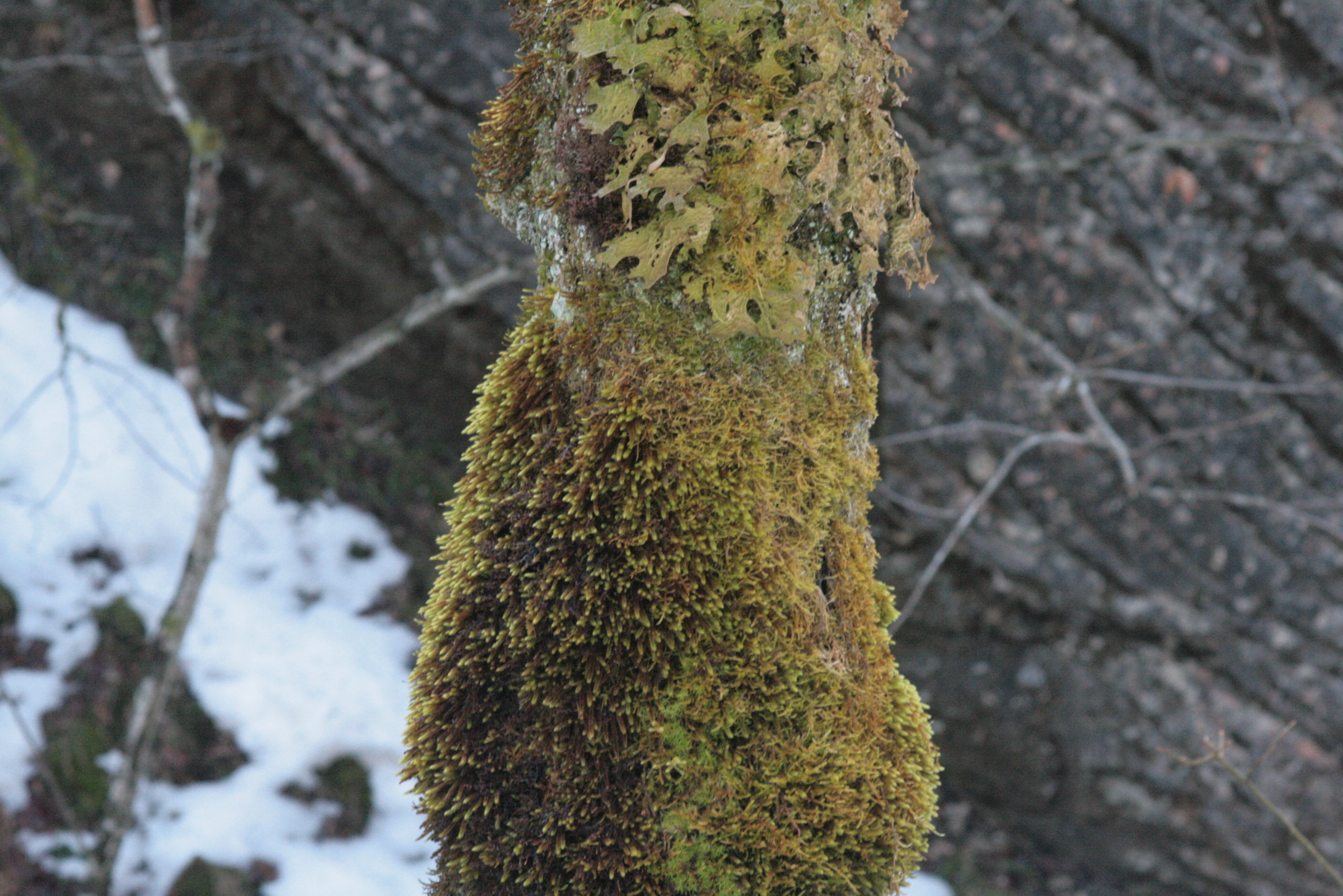 Antitrichia curtipendula